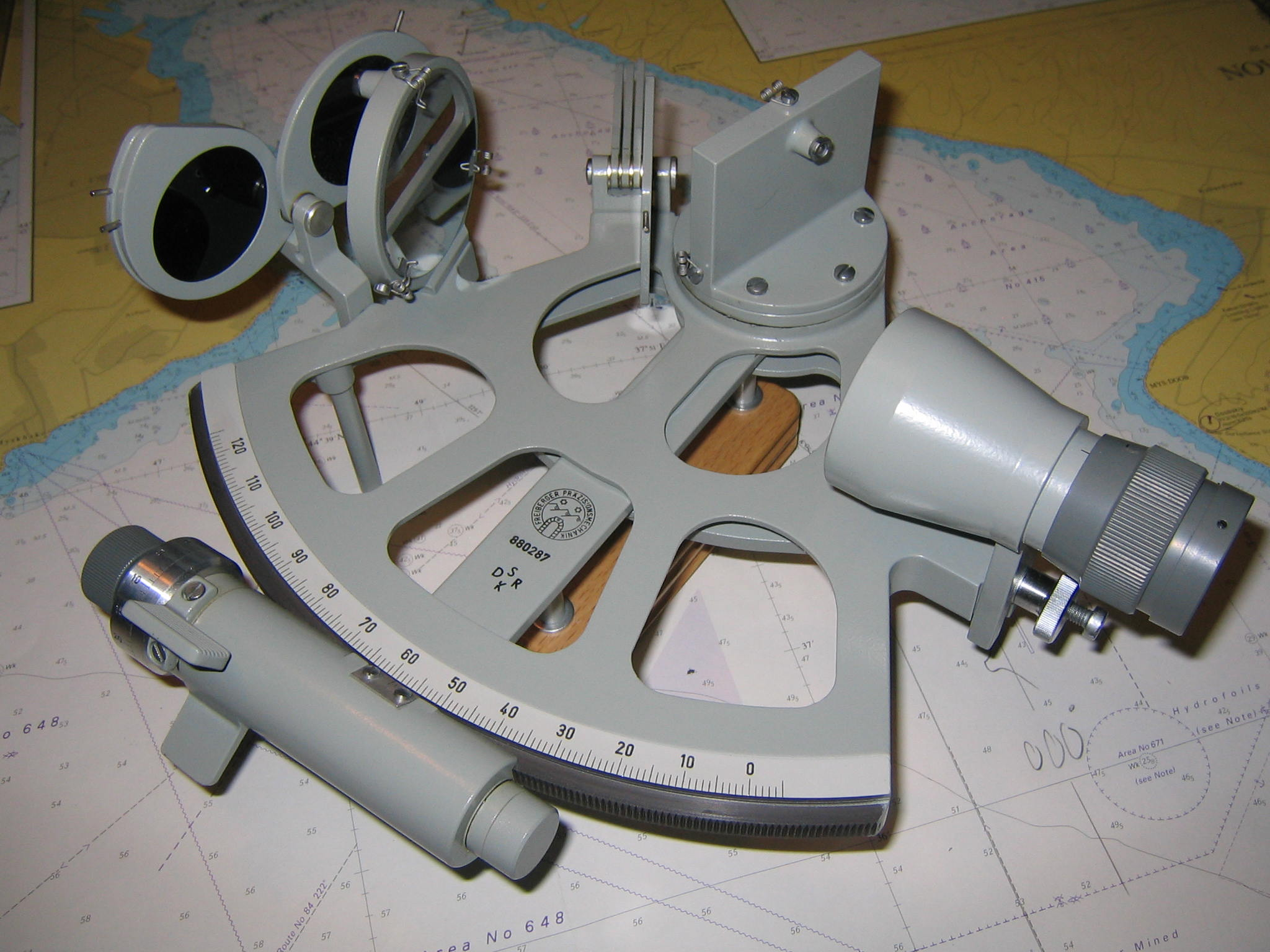 Freiberger Sextant Painted Aluminum Frame, Wooden handle Navigational aid